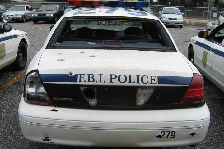 A damaged FBI car used for filming Live Free or Die Hard in Baltimore